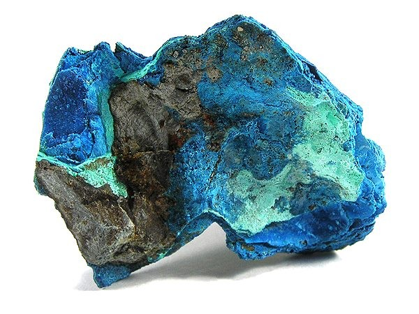 Connellite Locality: Perran Great St George Mine, Perranzabuloe, St Agnes District, Cornwall, England, UK (Locality at ) A specimen of the rare hydrated copper sulfate/chloride connelite, from one of the English localities from where they generally come (when you see them, which is not often) . . . ex Ruggiero collection 4.4 x 3.3 x 2.4cm